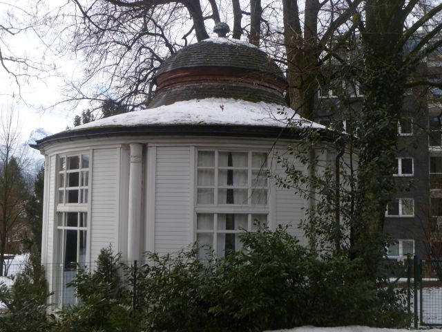 Fondachhof-Salettl